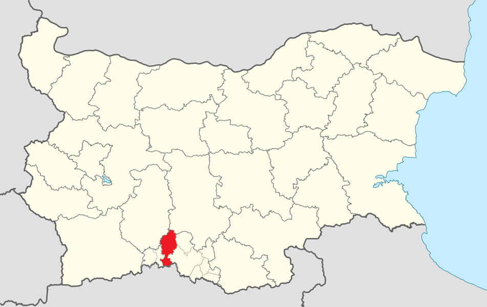 Location map of Devin Municipality within Bulgaria and Smolyan province